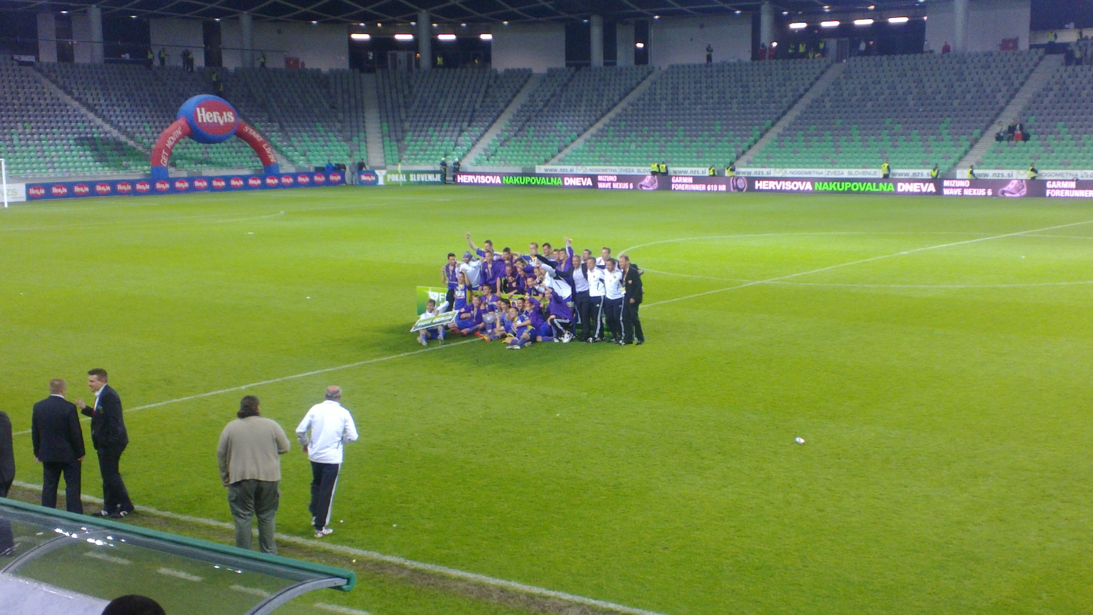 Maribor celebrating their victory in the 2012 Slovenian Cup.